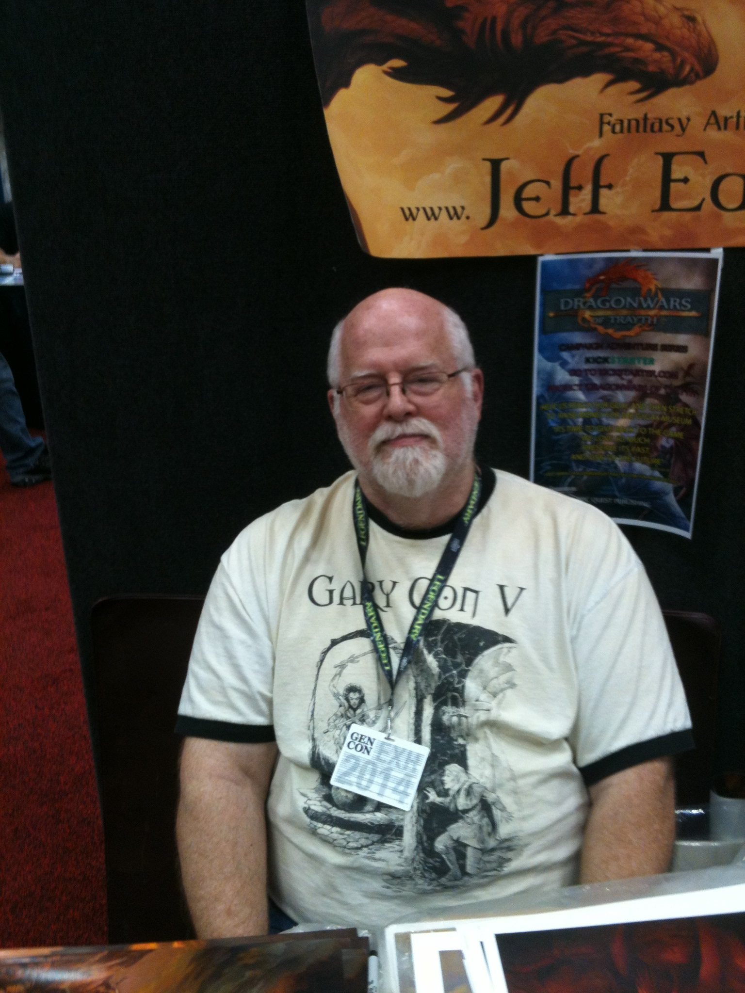 Artist Jeff Easley at Gen Con Indy 2014 on August 15, 2014.